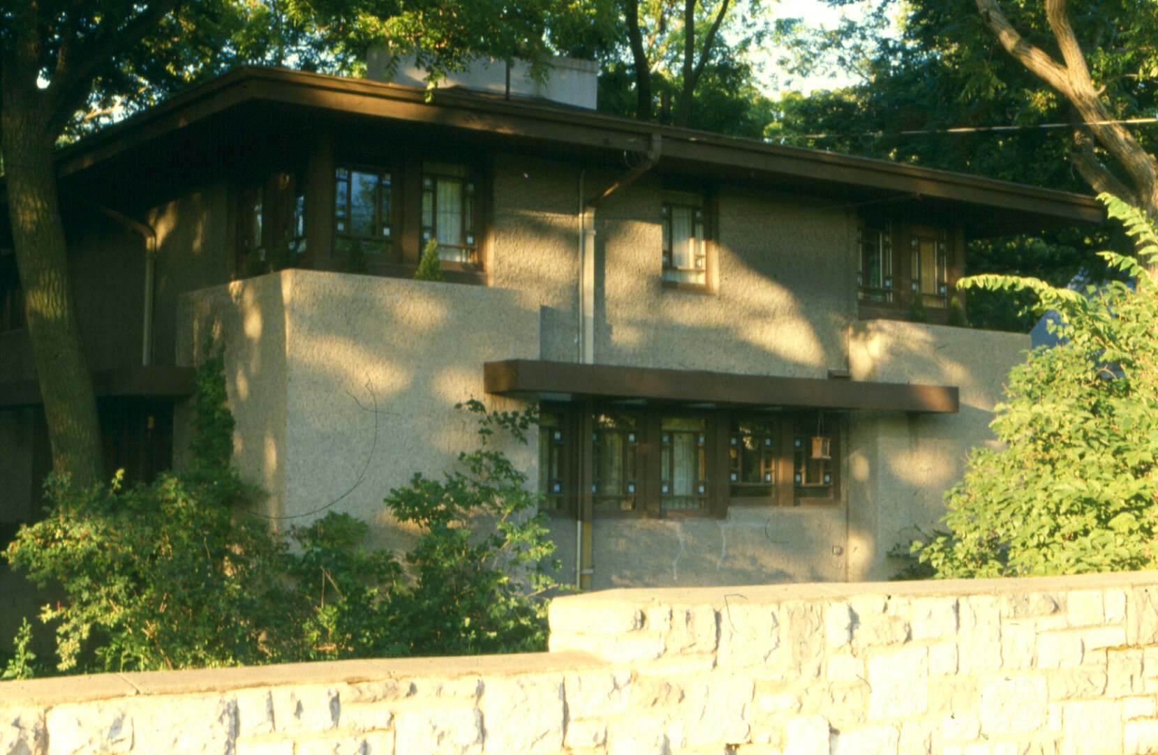 photo by Einar Einarsson Kvaran for Walter Burley Griffin and perhaps Mason City, Iowa